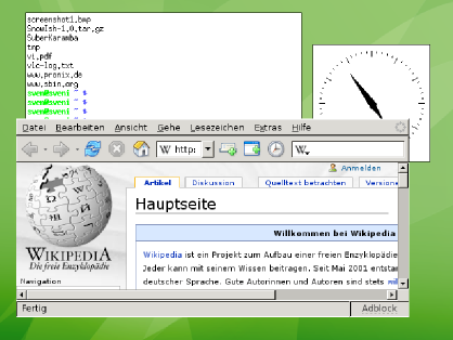 Programs without Windowmanager